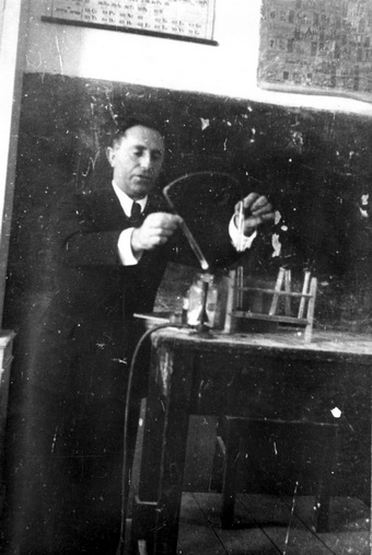 ריגאי מורה לכימיה (בוגר מחזור ד' הגימנסיה)